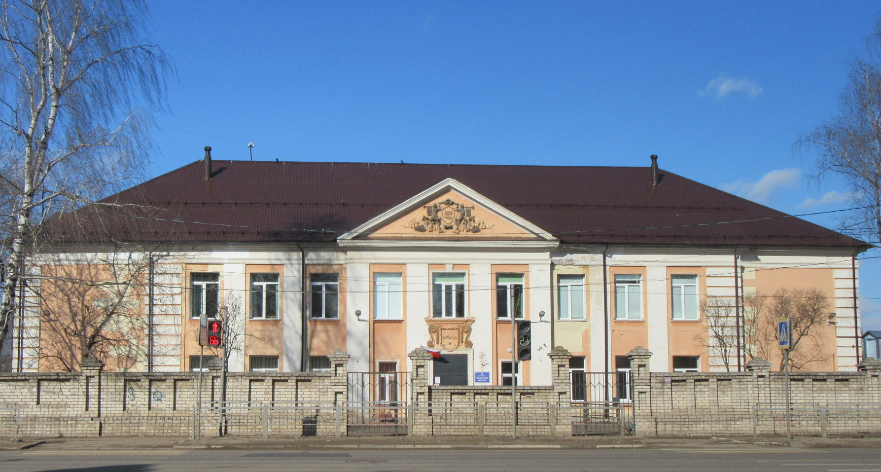 Primary school building of the 17th school of Tver